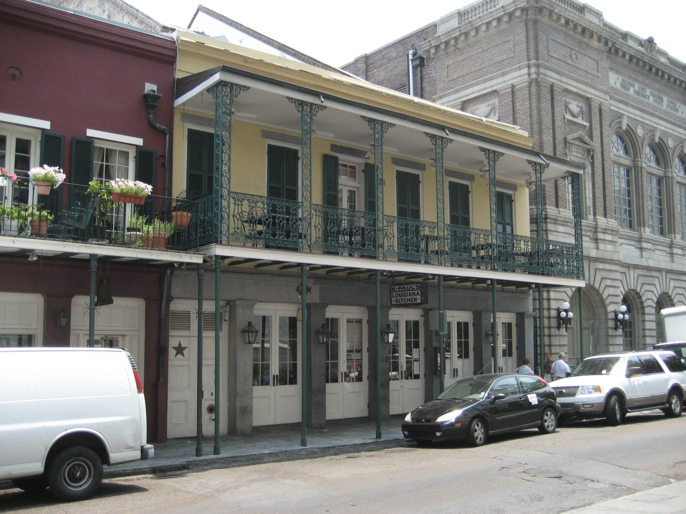 K-Paul's Restaurant, the signature restaurant of well known chef Paul Prudhomme, on Chartres Street in the French Quarter of New Orleans.